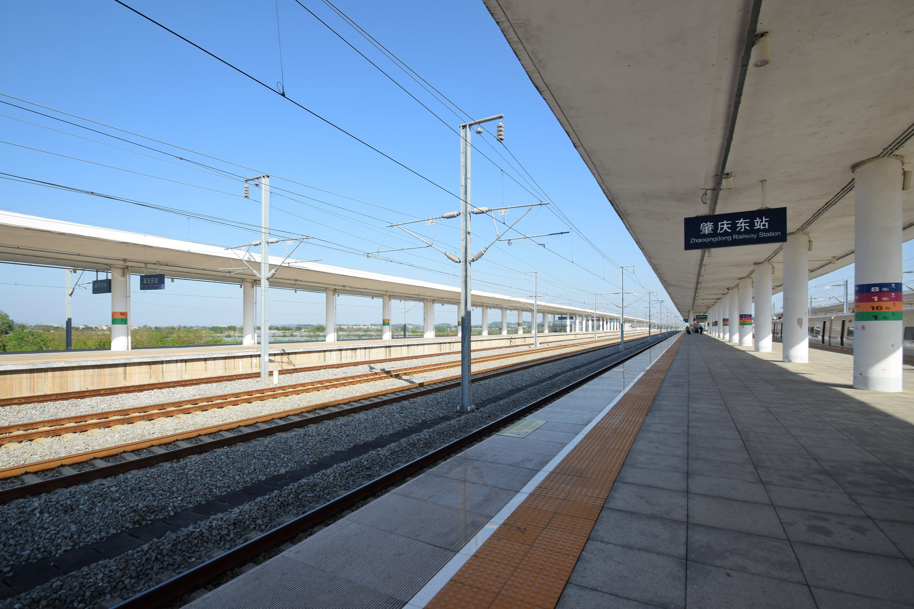 Guiyang-Guangzhou High-Speed Railway Platforms of Zhaoqing Dong (East) Railway Station, view towards Sanshui Nan (South) Railway Station.